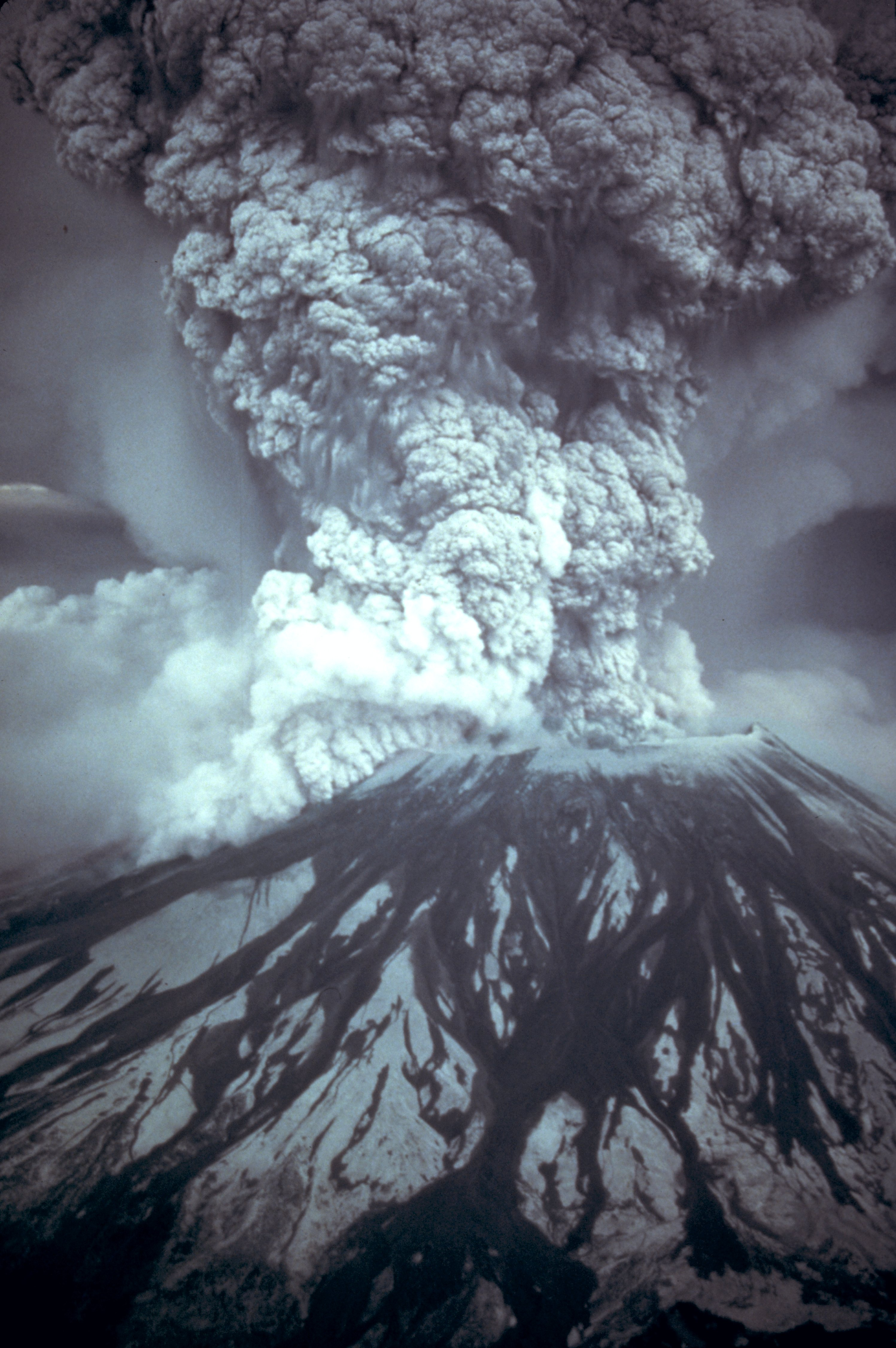 On May 18, 1980, at 8:32 a.m. Pacific Daylight Time, a magnitude 5.1 earthquake shook Mount St. Helens. The bulge and surrounding area slid away in a gigantic rockslide and debris avalanche, releasing pressure, and triggering a major pumice and ash eruption of the volcano. Thirteen-hundred feet (400 meters) of the peak collapsed or blew outwards. As a result, 24 square miles (62 square kilometers) of valley was filled by a debris avalanche, 250 square miles (650 square kilometers) of recreation, timber, and private lands were damaged by a lateral blast, and an estimated 200 million cubic yards (150 million cubic meters) of material was deposited directly by lahars (volcanic mudflows) into the river channels. Sixty-one people were killed or are still missing. USGS Photograph taken on May 18, 1980, by Austin Post.